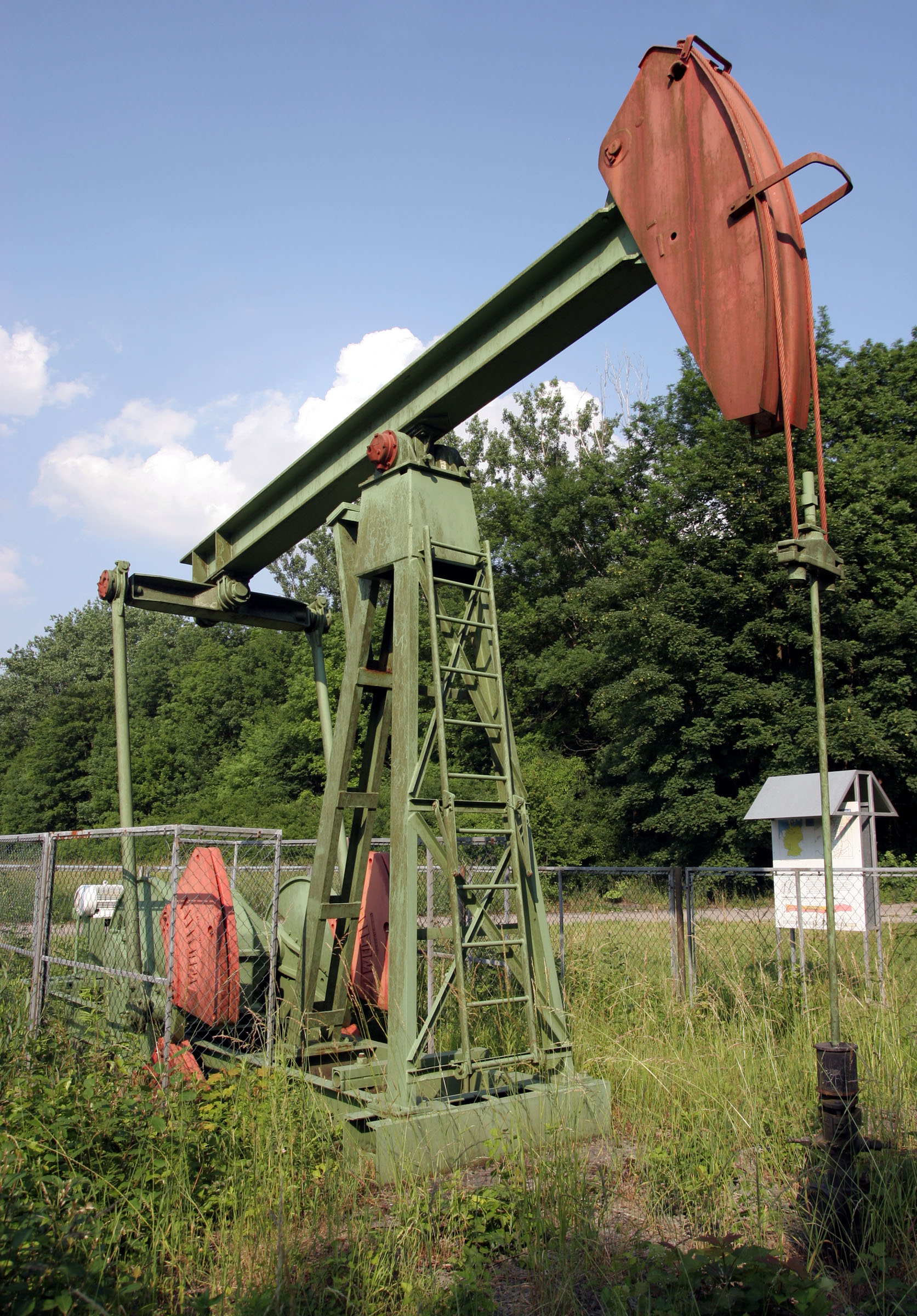 Old oil pump at the Kühkopf close to Stockstadt (Hesse, Germany)